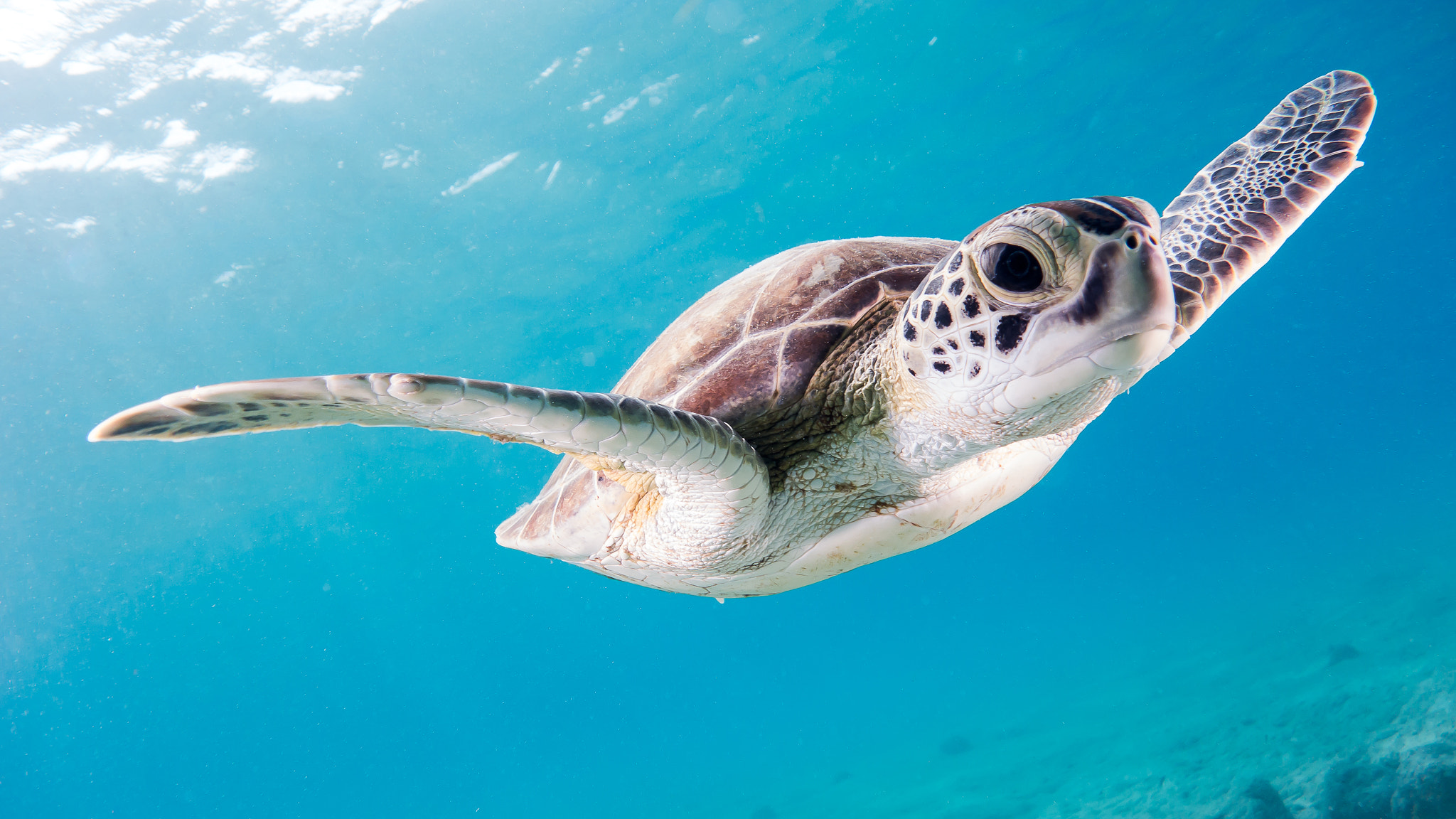 500px provided description: Surprisingly curious, this young turtle swam around us in the shallows during our way out to the Salt Pier, a gorgeous dive site on Bonaire. [#blue ,#animals ,#animal ,#turtle ,#wildlife ,#underwater ,#diving ,#dive ,#marine ,#marine life ,#undersea ,#scuba ,#sea turtle ,#sealife ,#scuba diving ,#marinelife ,#scubadiving ,#scubadive ,#scuba dive ,#salt pier]